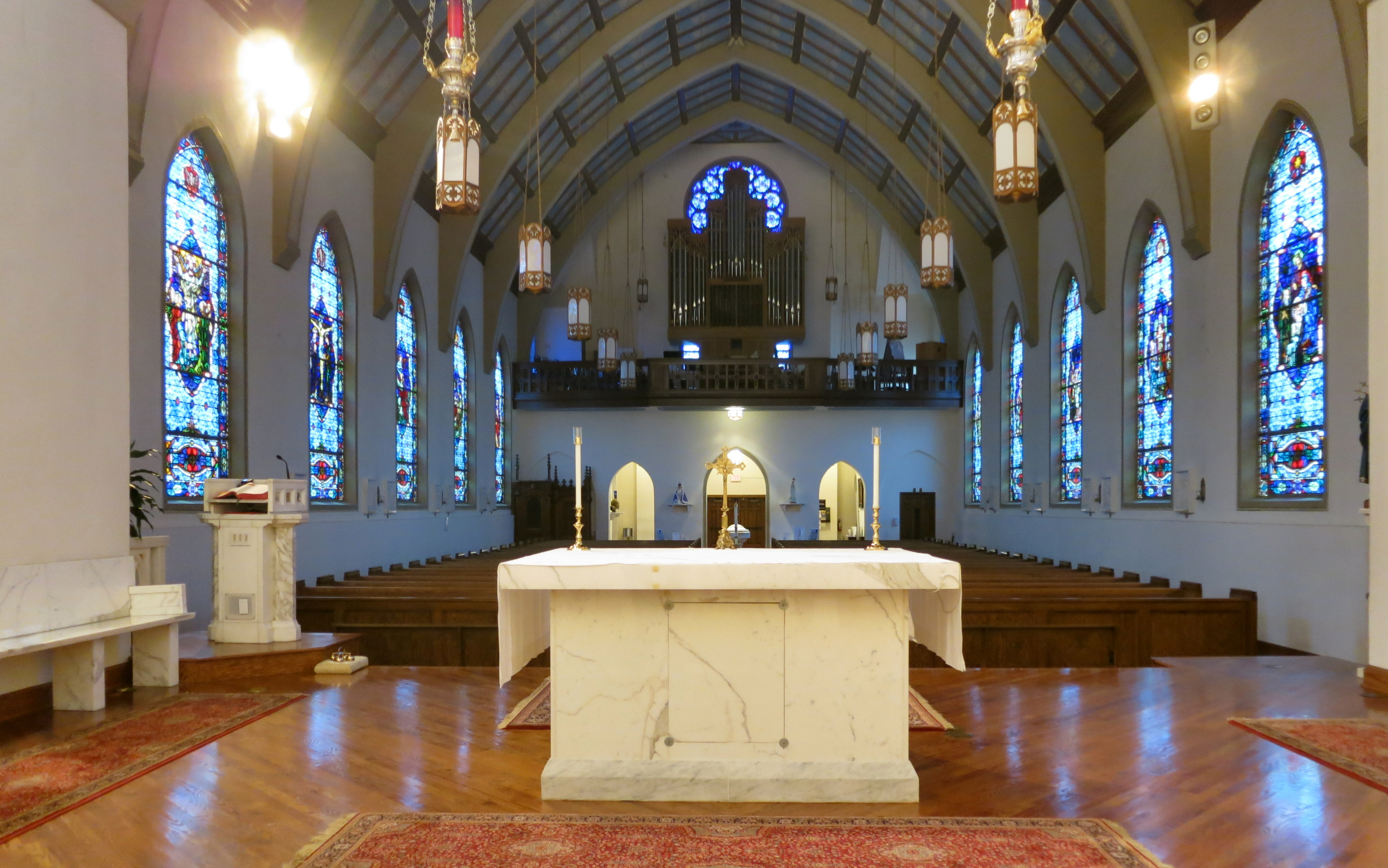 Cathedral Church of Saint Patrick (Charlotte, North Carolina) - nave, rear